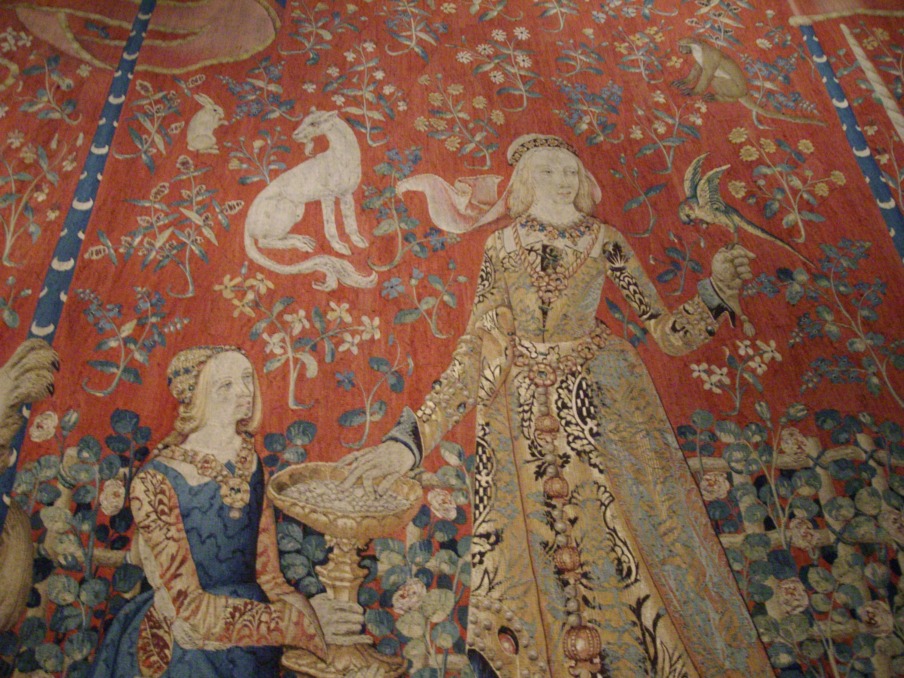 The Lady and the Unicorn